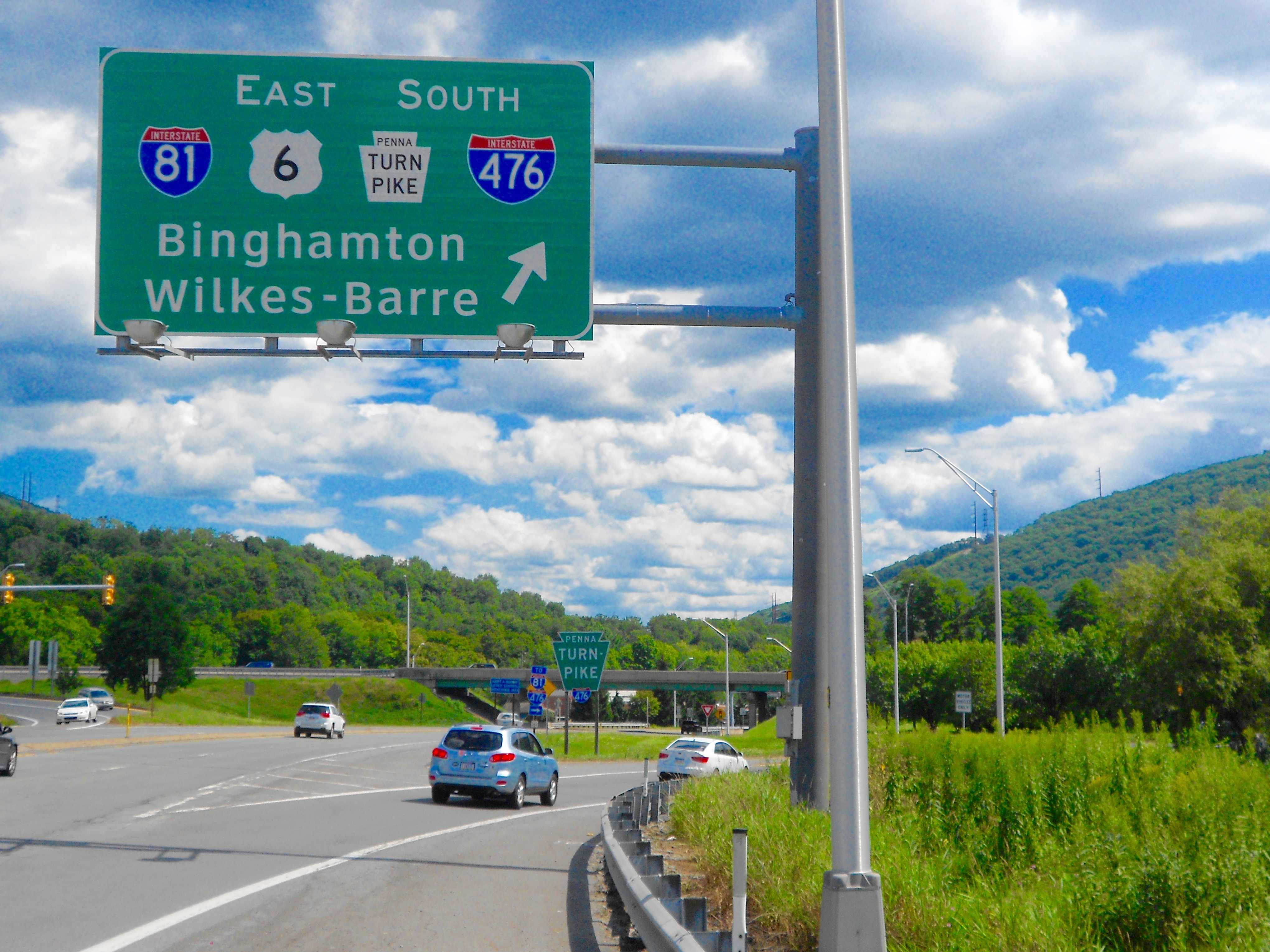 Northern most entrance I-476, South Abington TWP, Lackawanna County, Pennsylvania